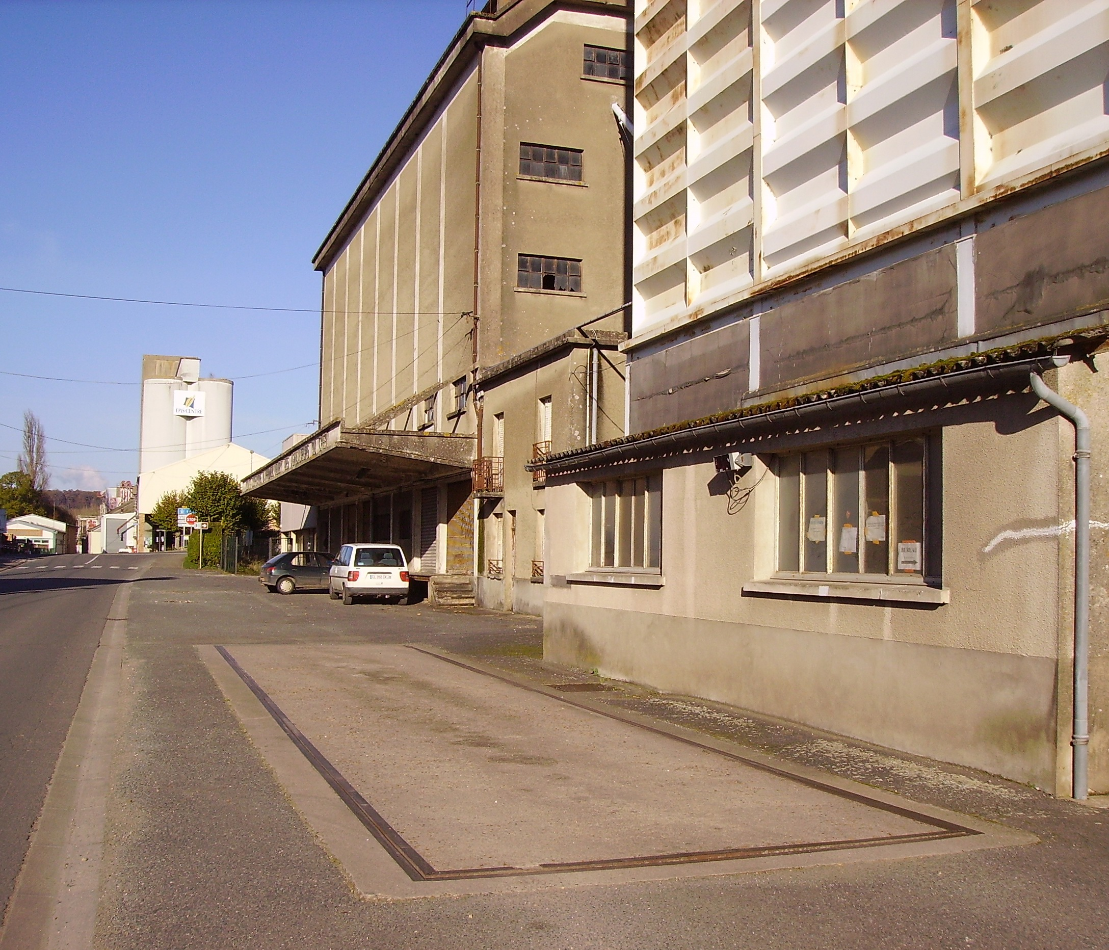 Weighbridge in Saint-Satur, France. The weight indicator (ATP brand) is visible.